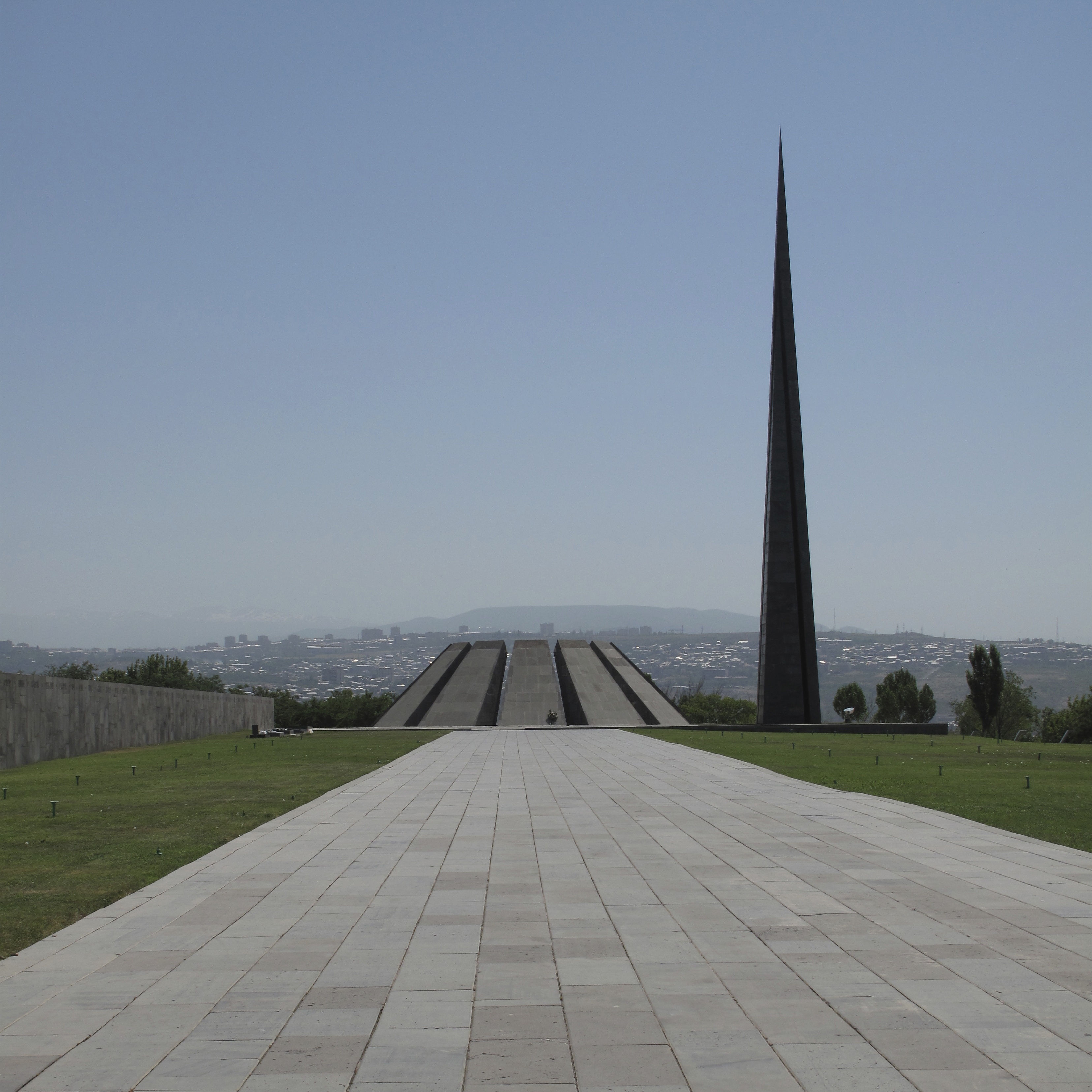 Armenian Genocide Memorial at Yerevan